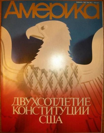 Cover of Amerika, dedicated to the 200th anniversary of the US Constitution